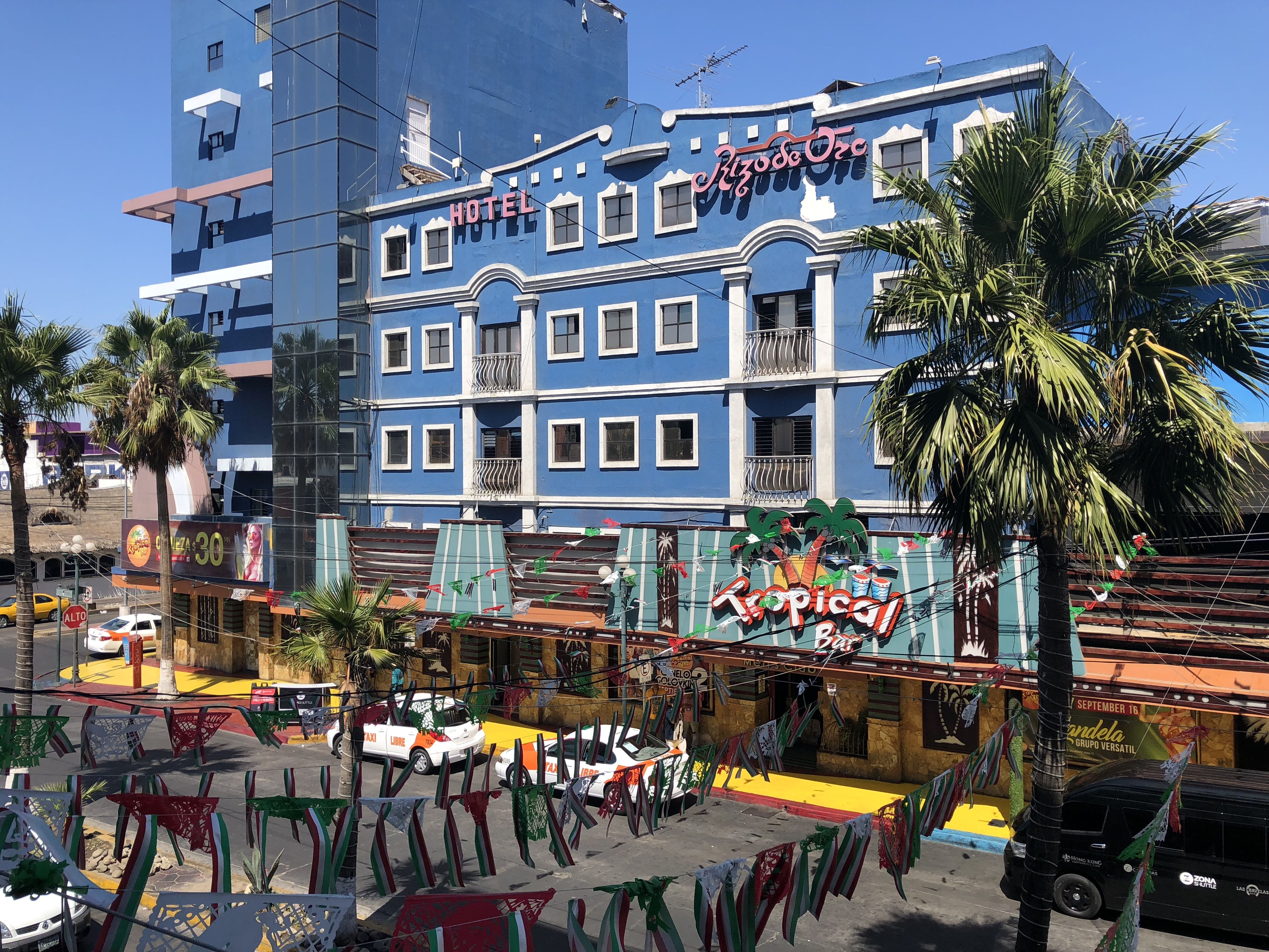 This is a photo of Tropical Bar and Hotel Rizo de Oro in Tijuana, Mexico.